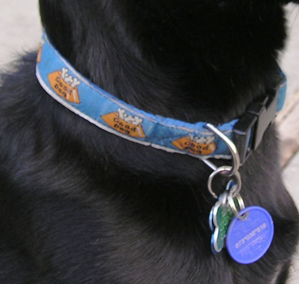 quick-release buckle collar. Dec '04